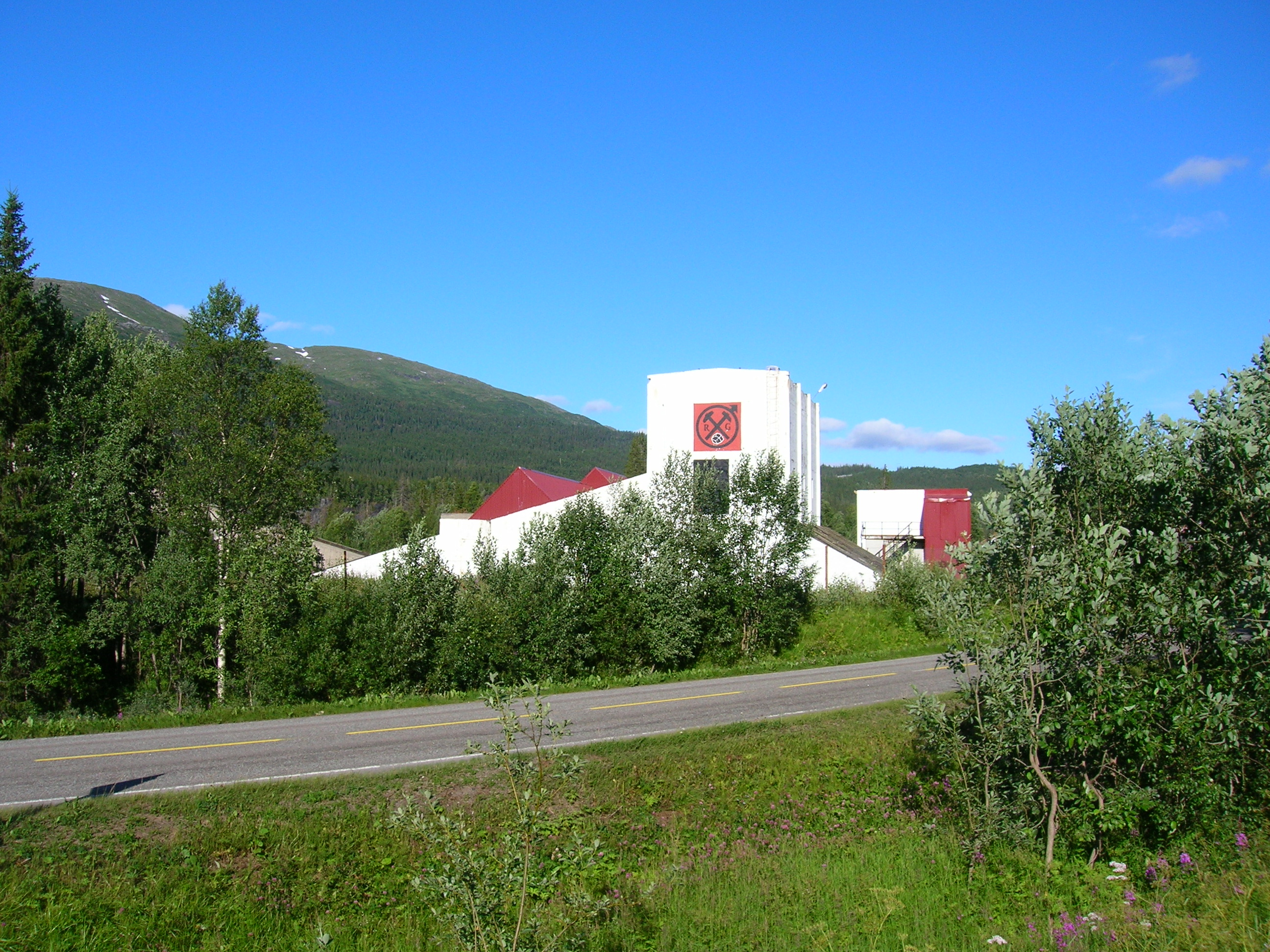 Rana Gruber on Storforshei in Dunderlandsdalen, seen from European route 6. Rana municipality, county of Nordland, Norway. Photo July 19, 2007 with a Nikon Coolpix 5600 5,1 Megapixel camera.